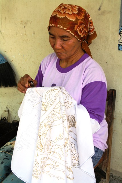 Illiterate lady learning the art of Batik painting via Unesco sponsored project. Today, the area around the Taman Sari castle complex is occupied by a settlement called Kampung Taman with 2,700 residents. The community is known for their batik and traditional painting craft traditions. Currently the Sultan of Jogja is planning to remove the houses and people around Taman Sari and replace them with luxury rental villas. Yogyakarta, Java, Indonesia. (dd. 2010)